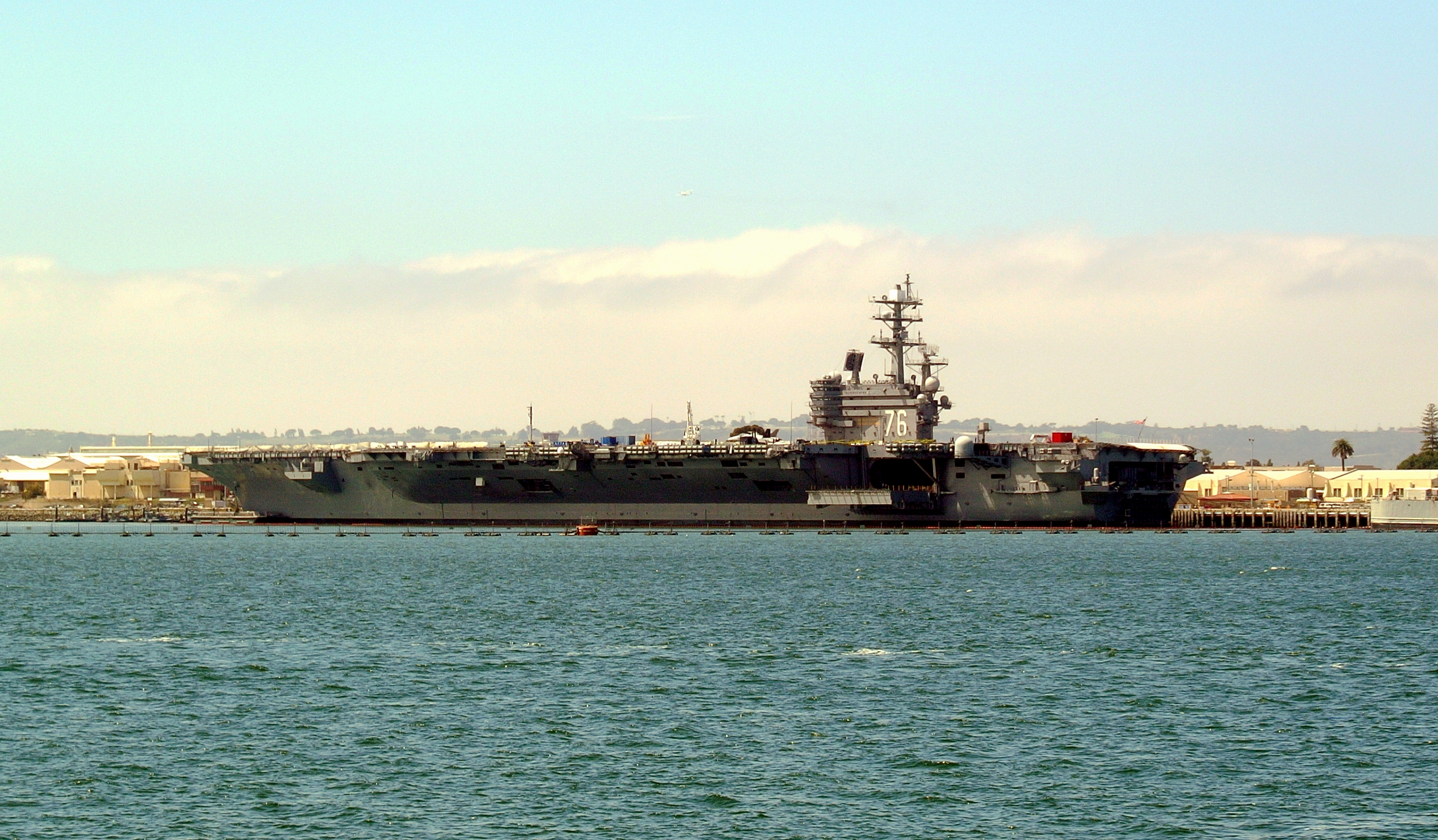 USS Ronald Reagan (CVN-76) in San Diego (2013).